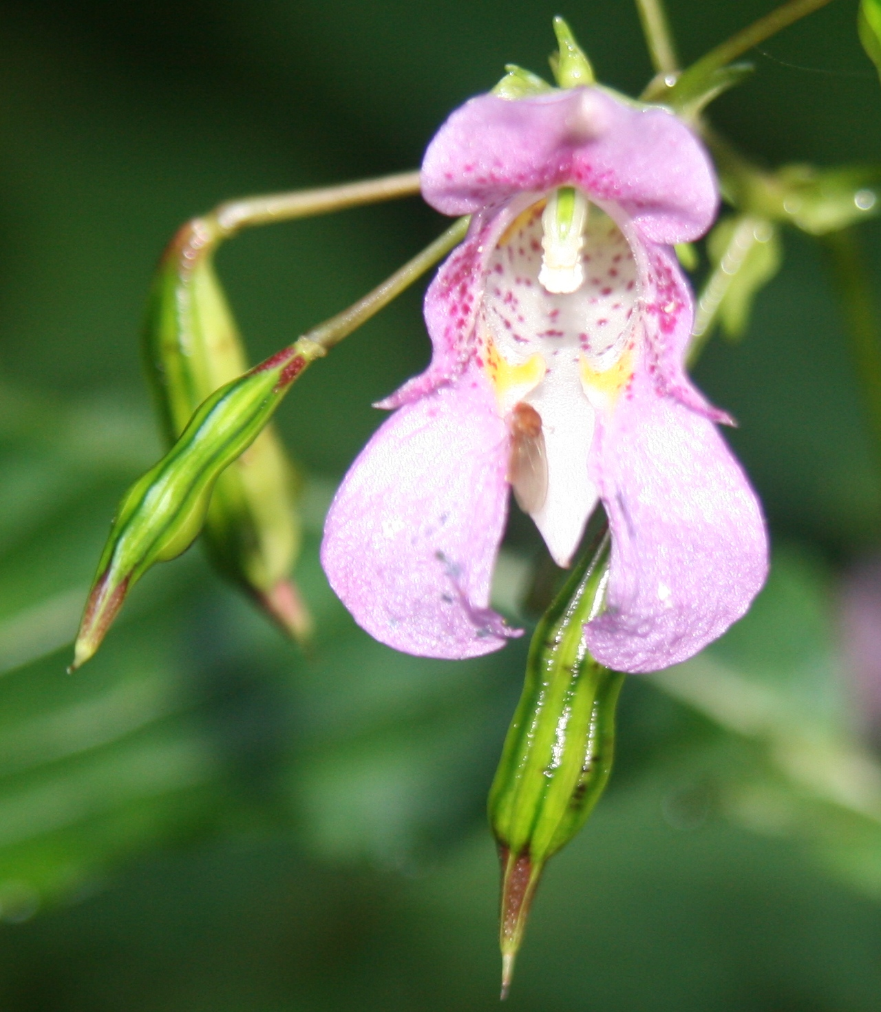 flower and seed of Impatiens textori in Ibigawa, Gifu